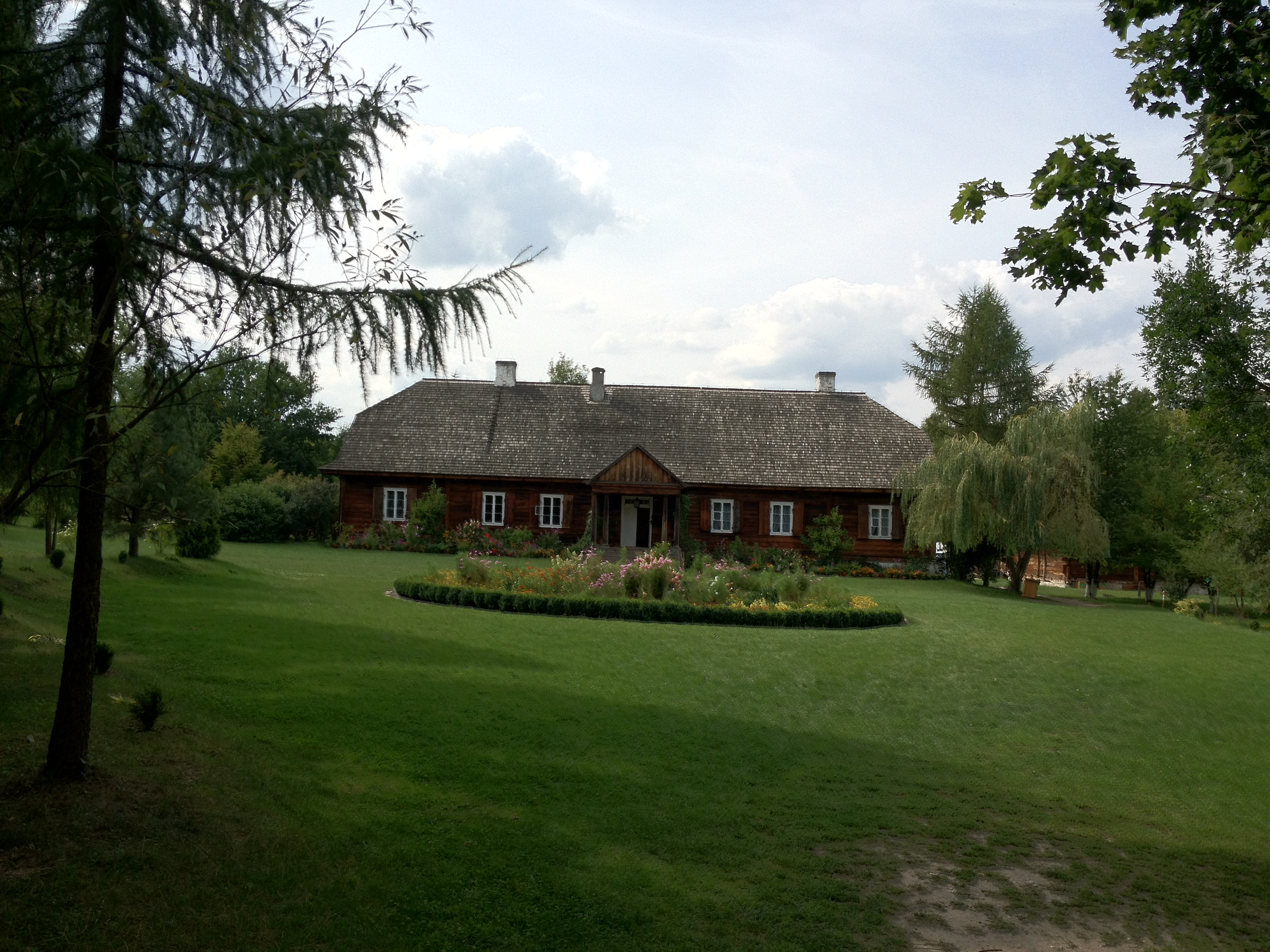 XIX centuries Manor House from Suchedniów, open air museum in Tokarnia/Kielce